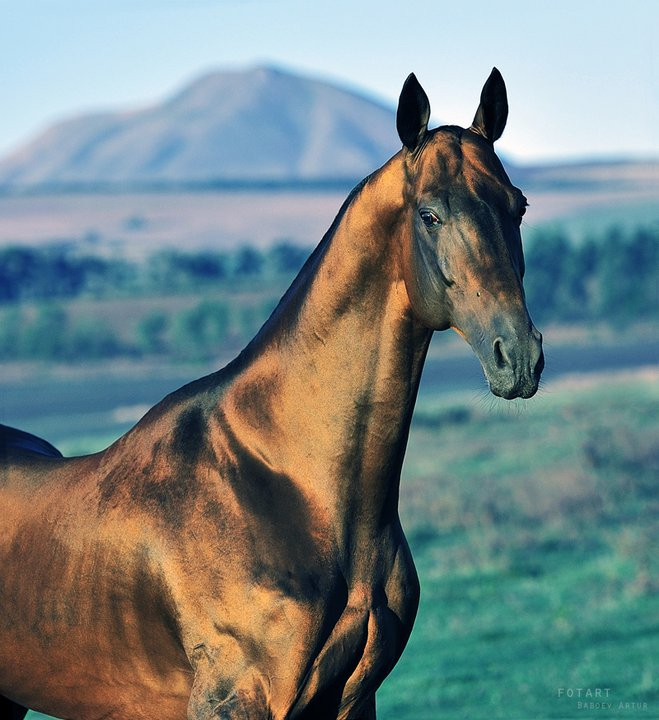 Akhal-teke stallion Gench